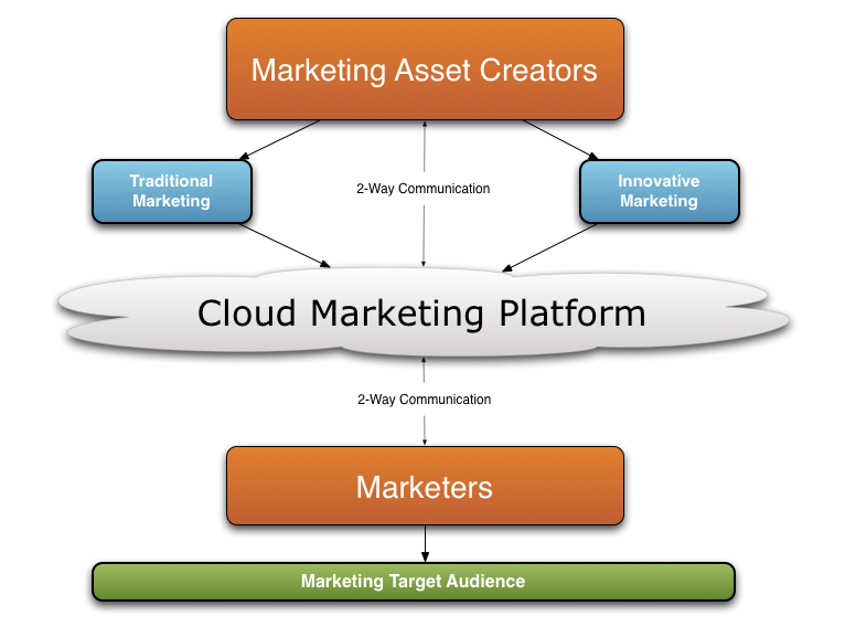 This diagram details the layout and work flow of a cloud marketing platform.